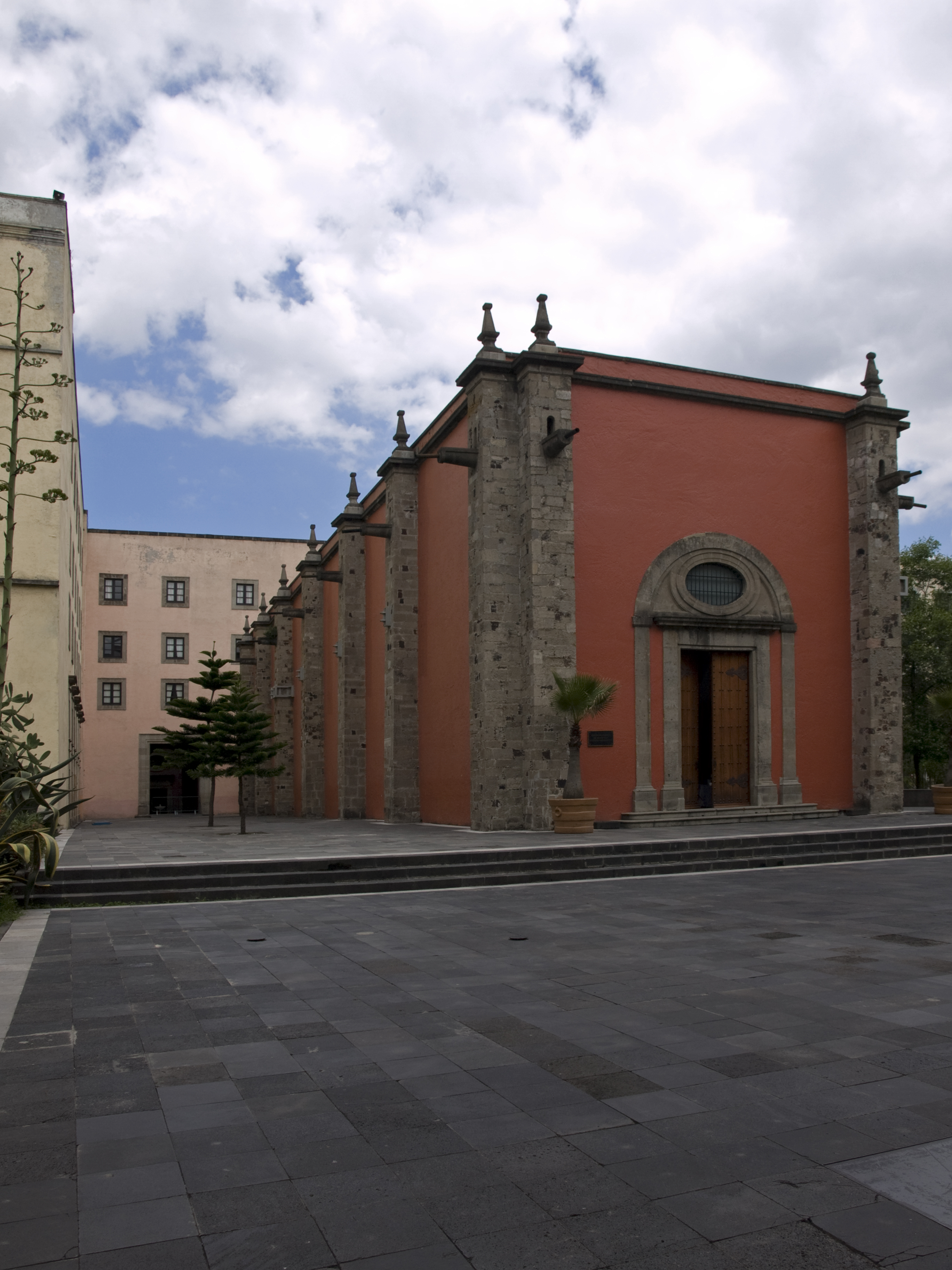 Royal Chapel (Capilla de la Emperatriz), in the second courtyard of the National Palace, Mexico City